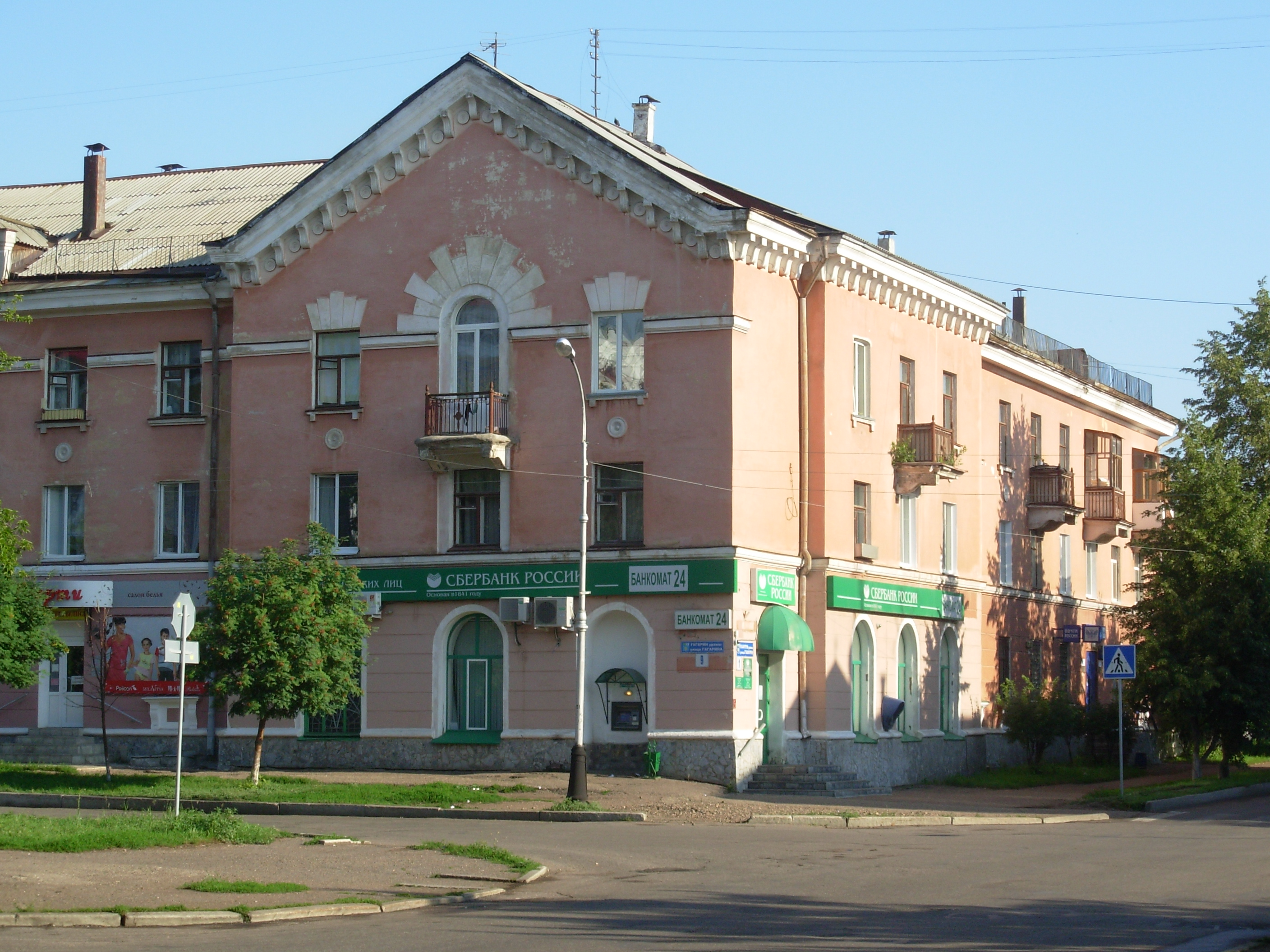 street